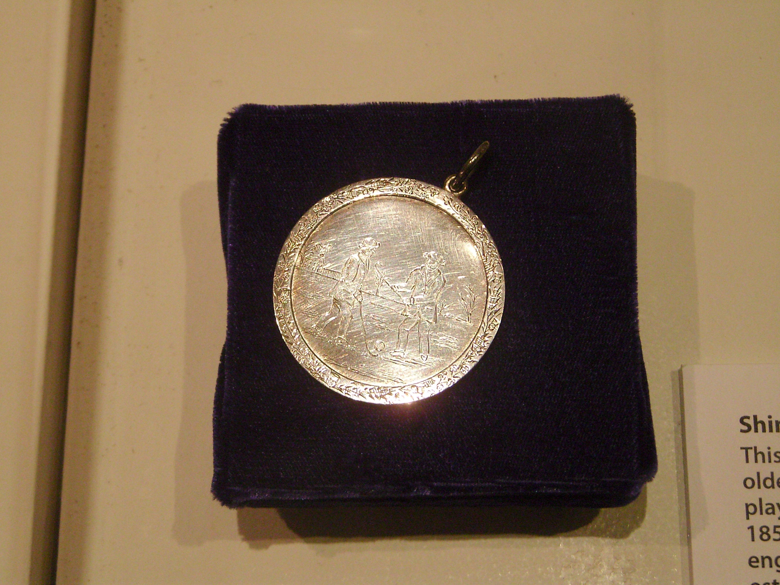 Medal of 1850s shinny competition in Ottawa, Canada.